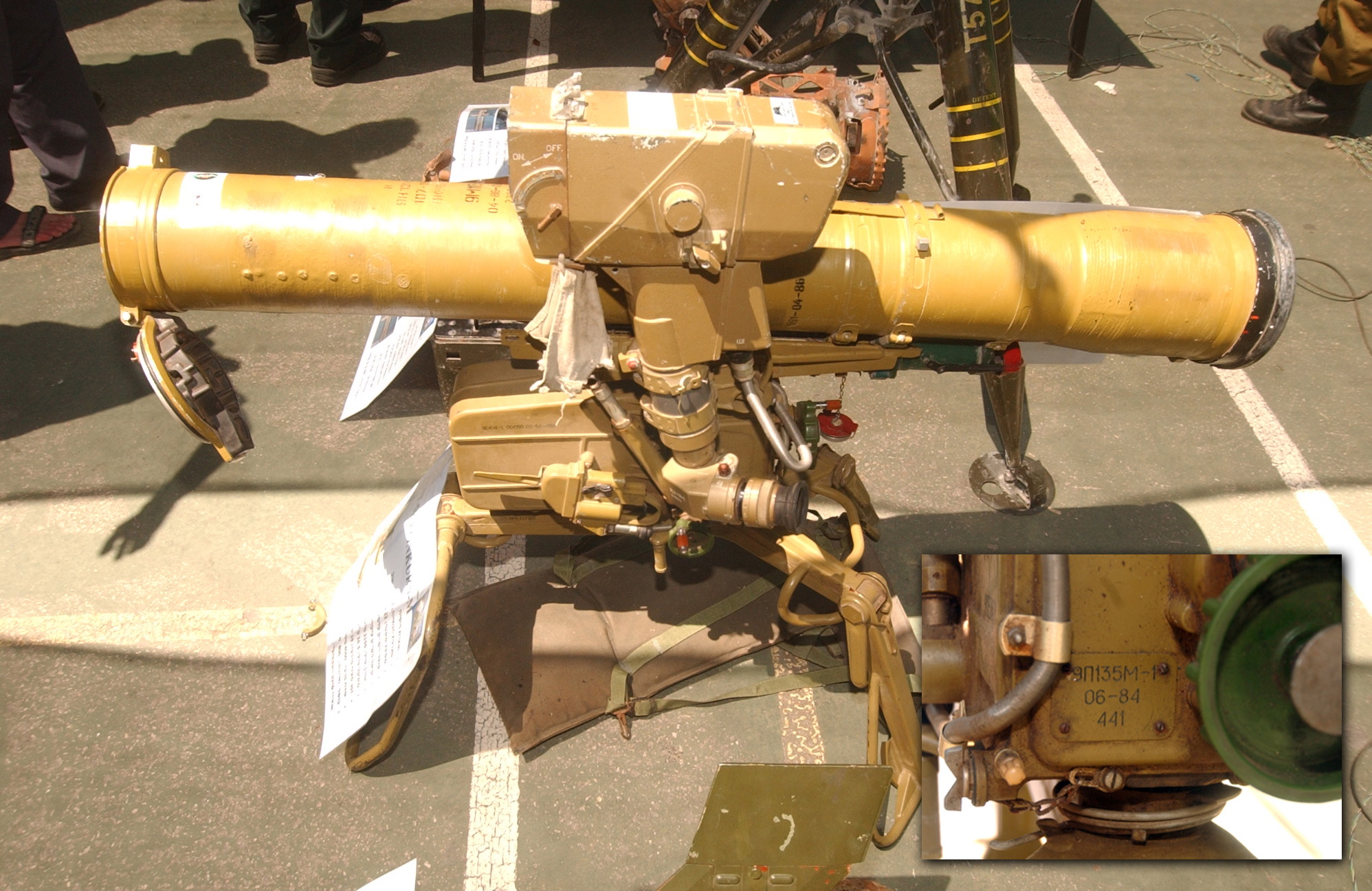 August 14, 2006. A Russian-made anti-tank missile launcher 9K111 Fagot captured by IDF forces in southern Lebanon belonging to Hezbollah. Pictured: (Lower right) Russian serial numbers on a weapon discovered belonging to Hezbollah.